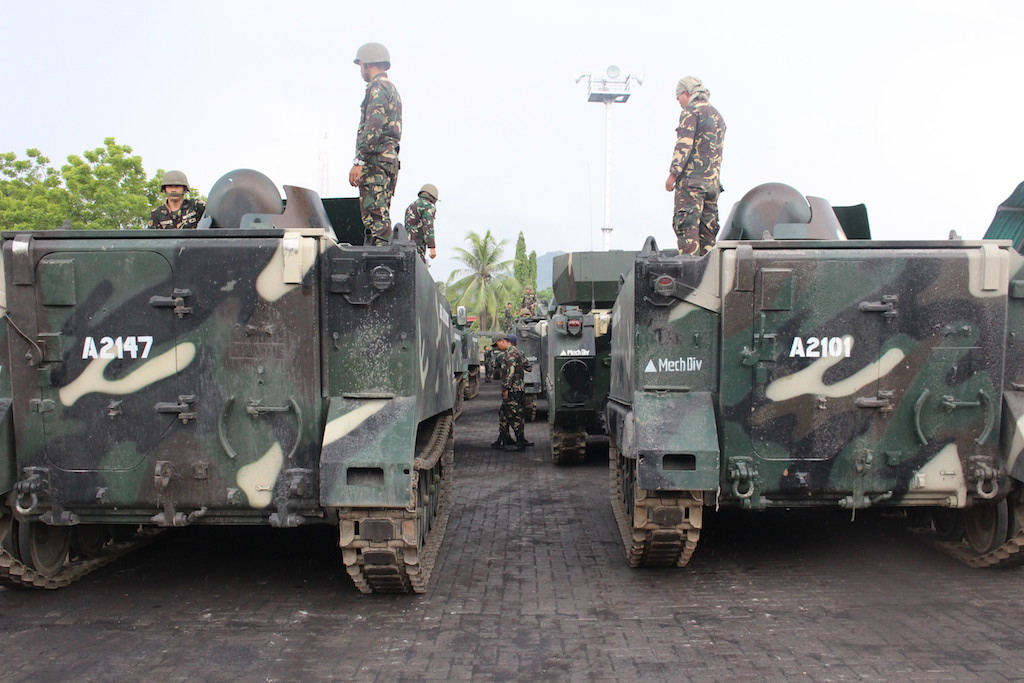 Philippine Navy offloads on May 31 in Iligan City port military vehicles and other supplies for distribution to the different AFP units in Mindanao to cater to the transport and logistical requirements for the ongoing military operations against the terrorists. Dispatched BRP Tarlac (LD-601), first strategic sealift vessel of the navy, sailed from Subic Bay, Zambales last May 29. (ZRD/AD/PIA10)